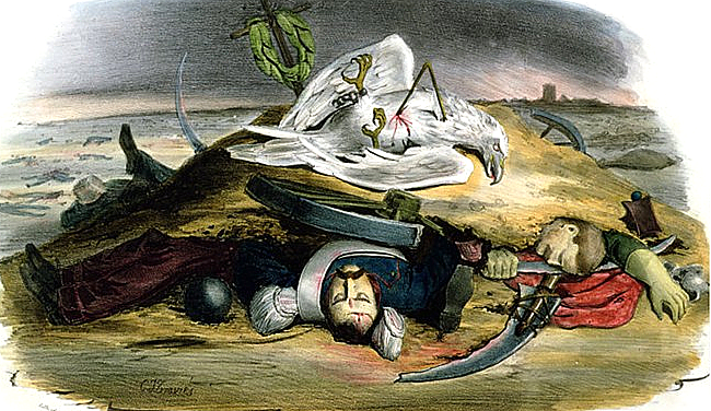 Order Prevails in Warsaw!, Satirical Criticism of the Comments of Minister Sebastiani